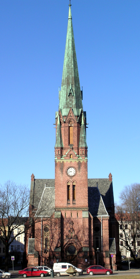 Paulus kirke, Thorvald Meyers gate, Oslo. Architect: Henrik Bull.